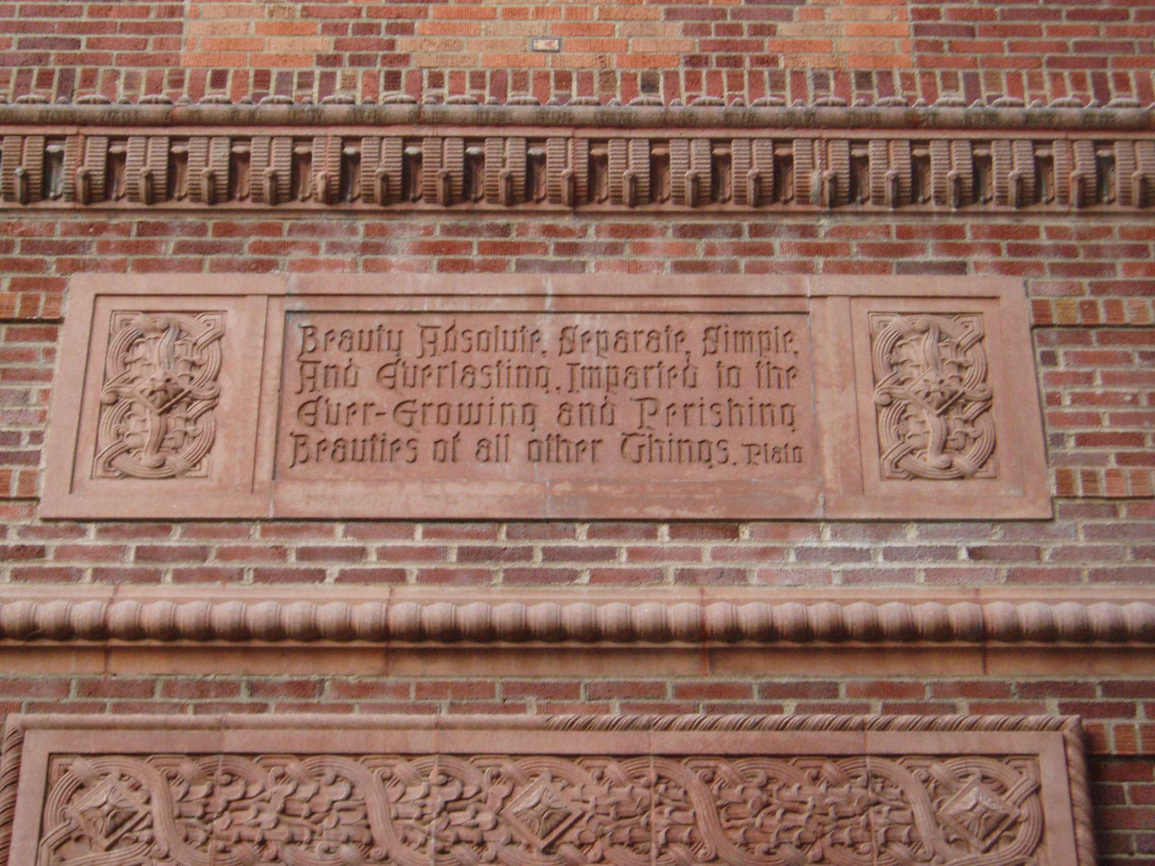 Detail of a quote by Plato on the south side of the front facade of the Museum of Art, on the University of Oregon campus in Eugene, Oregon.